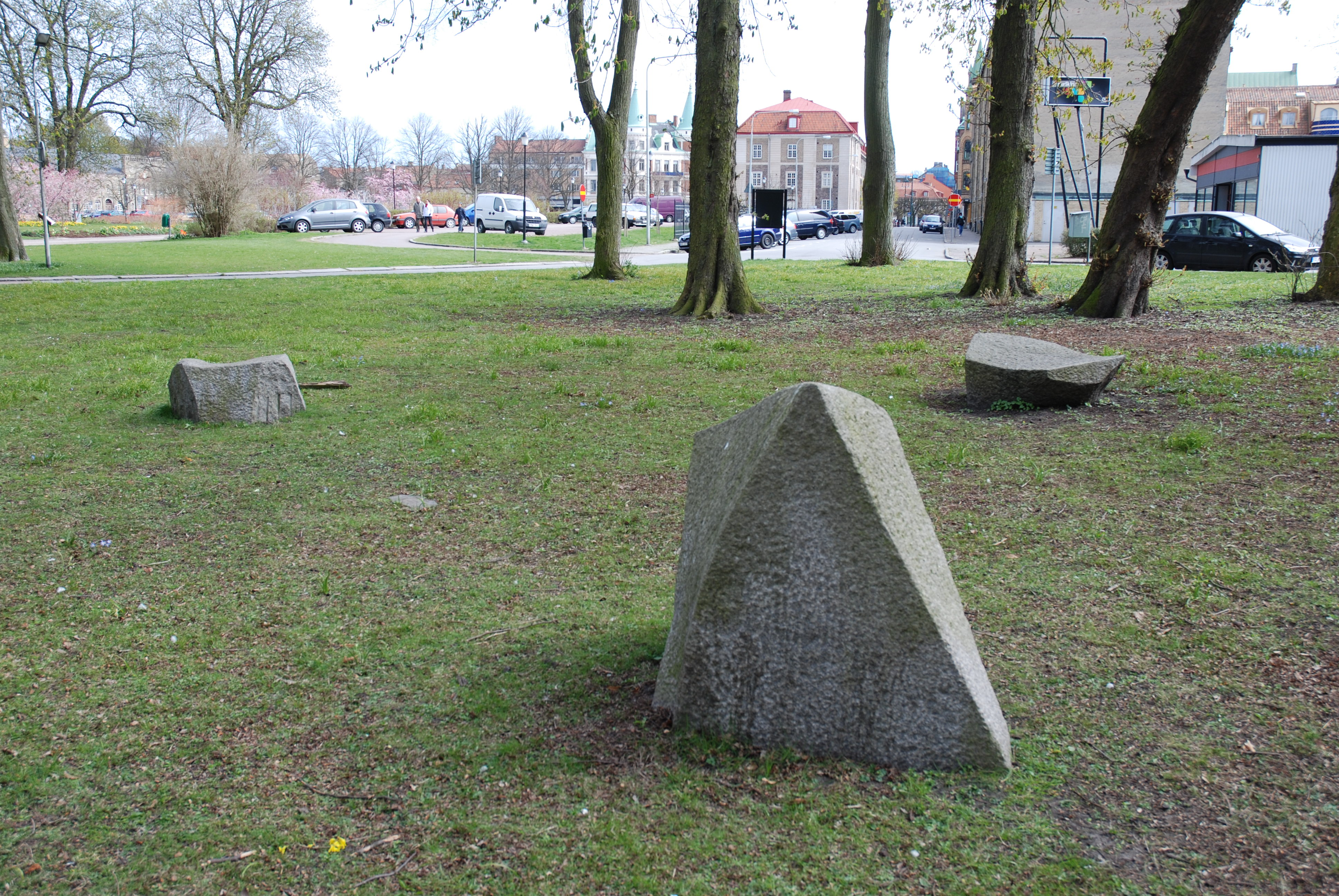 Lone Larsen´s Back to the age. Landskrona. Sweden